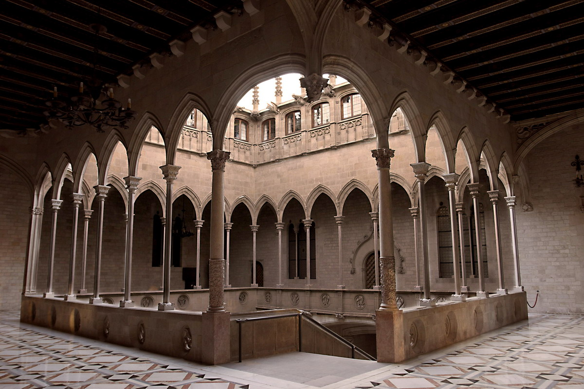 Gothic gallery of Palau de la Generalitat (Catalan Government Seat) in Barcelona. 15th century - by Marc Safont.